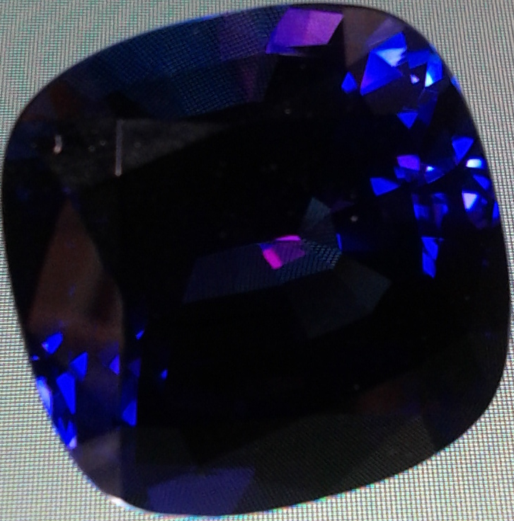 Untreated tanzanite gem displaying blue, violet & purple